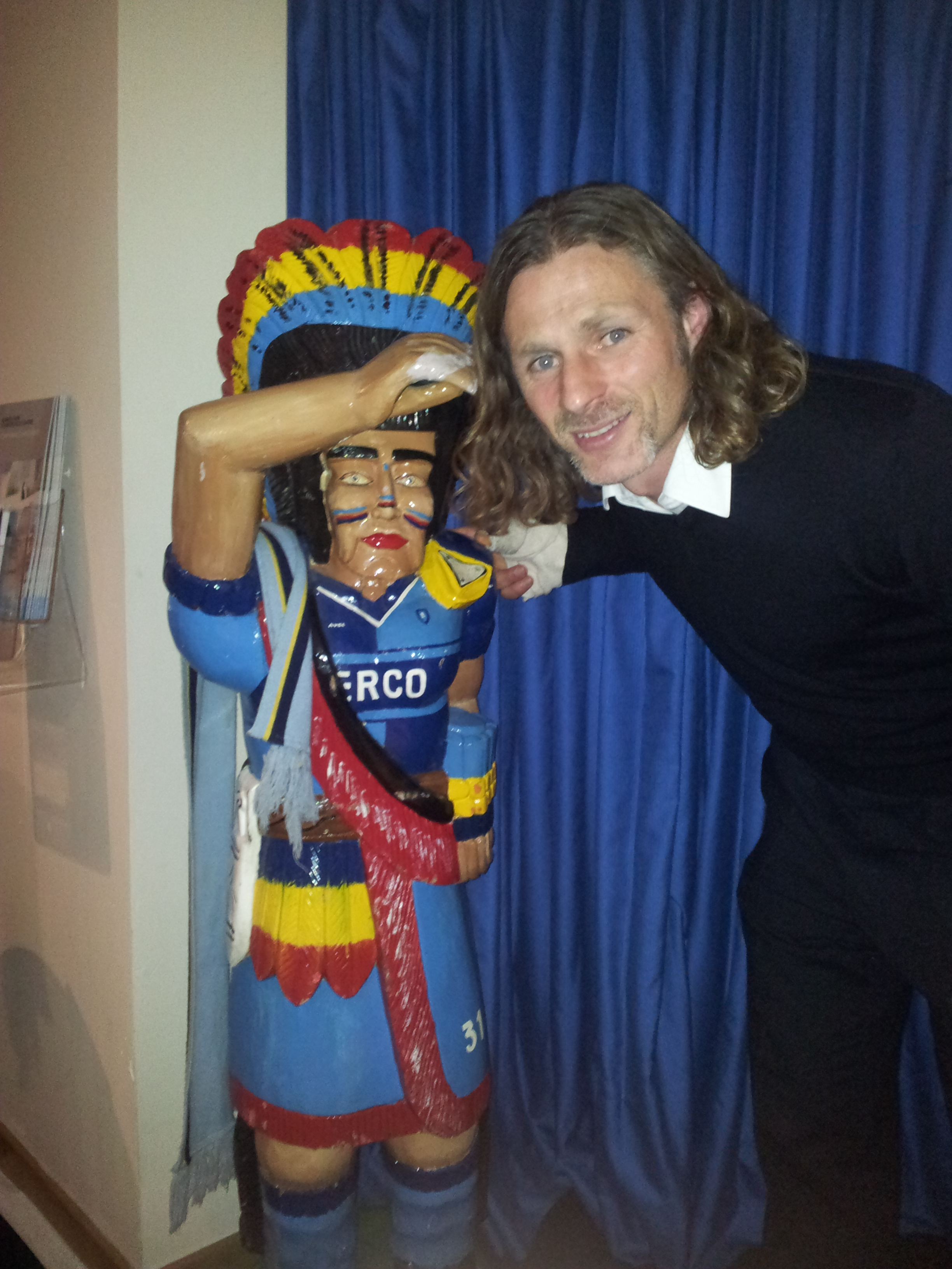 Gareth Ainsworth meets The Comanche at the 3rd Annual Ex Players Dinner, at Adams Park in November 2011